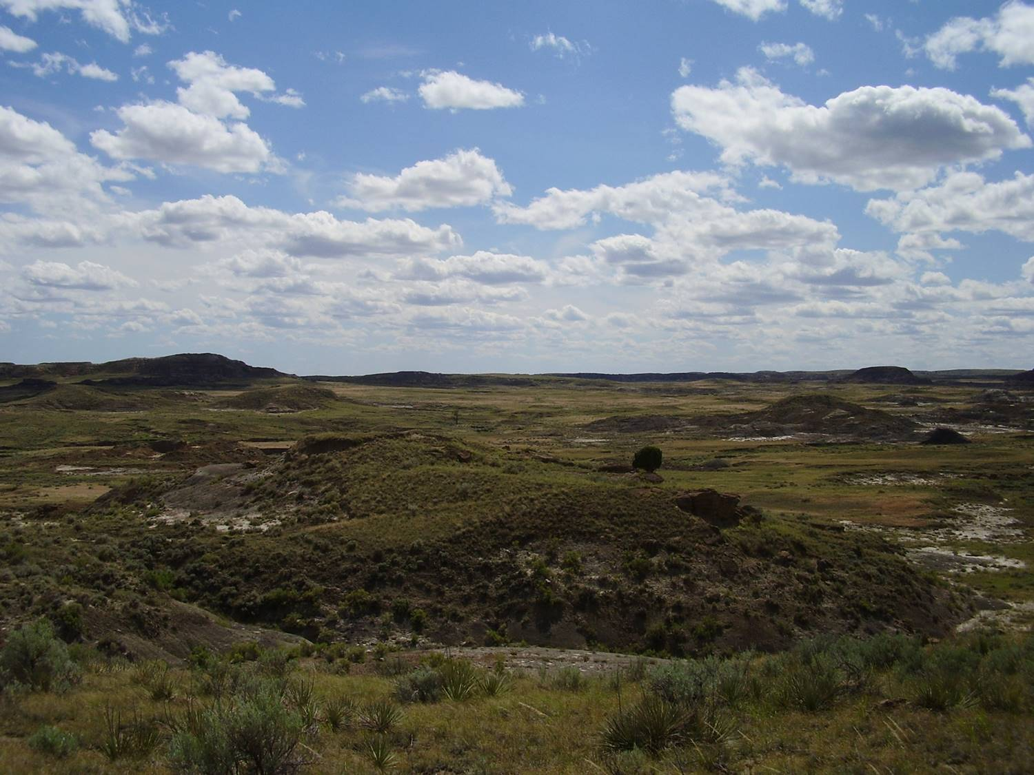 Badlands in eastern Montana.